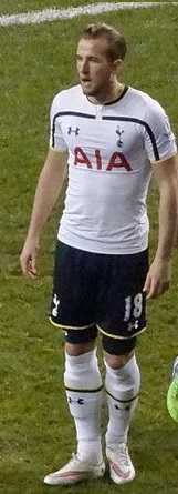 Harry Kane playing a match with Tottenham Hotspur against Chelsea. This image are an edition of "Spurs 5 Chelsea 3 (16175596592).jpg"